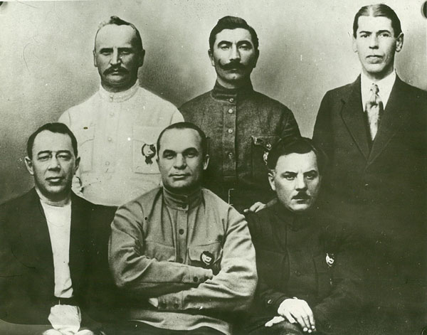 Convention of commanders. Sit: S.I.Gusev, Egorov AI, KE Voroshilov, stand: Petin NN, SM Budyonny, BM Shaposhnikov (Retouched duruing the later Soviet period to remove other prominent figures)